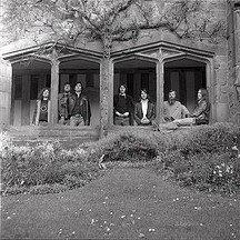 Band Photo Lineup circa 1975